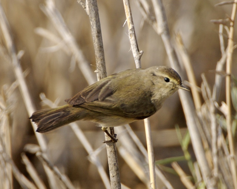 Common Chiffchaff Phylloscopus collybita El Fayoum, Egypt 5th. January 2008 Arabic: الذّعَره الشائعة, دخلة الشرق, نقشارة _Q0S5899